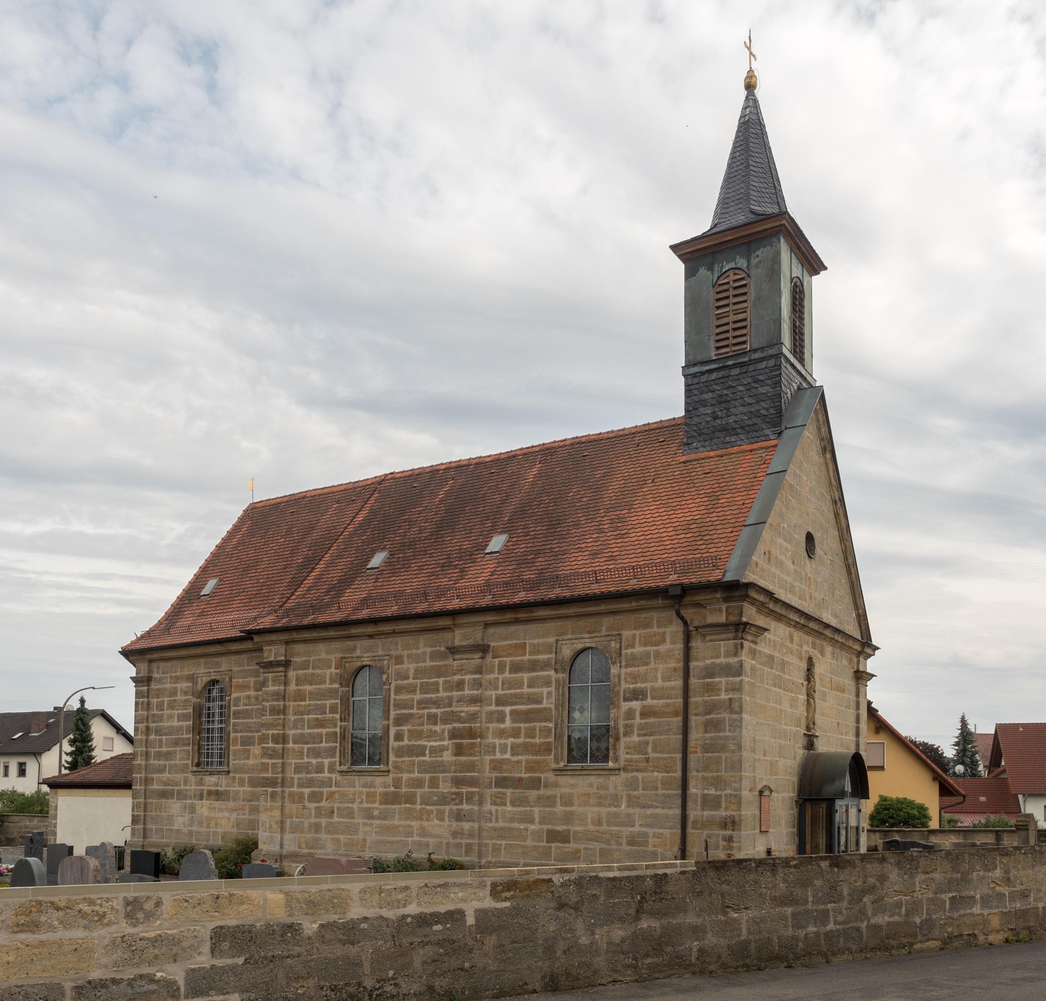 Catholic Kuratiekirche Santa Barbara in Unterhaid